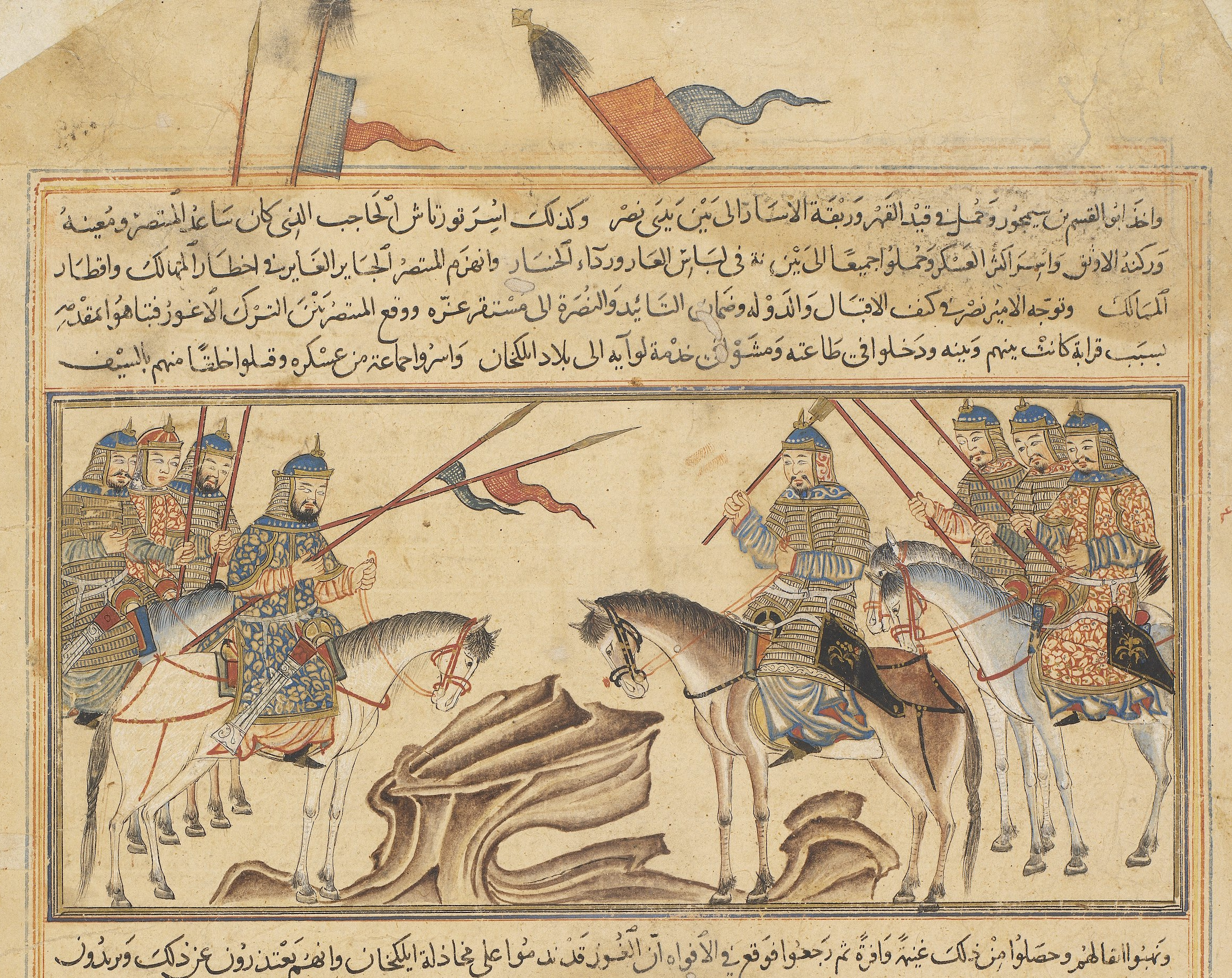 Artwork of the Samanid pretender Isma'il Muntasir during one of his numerous battles against his enemies.